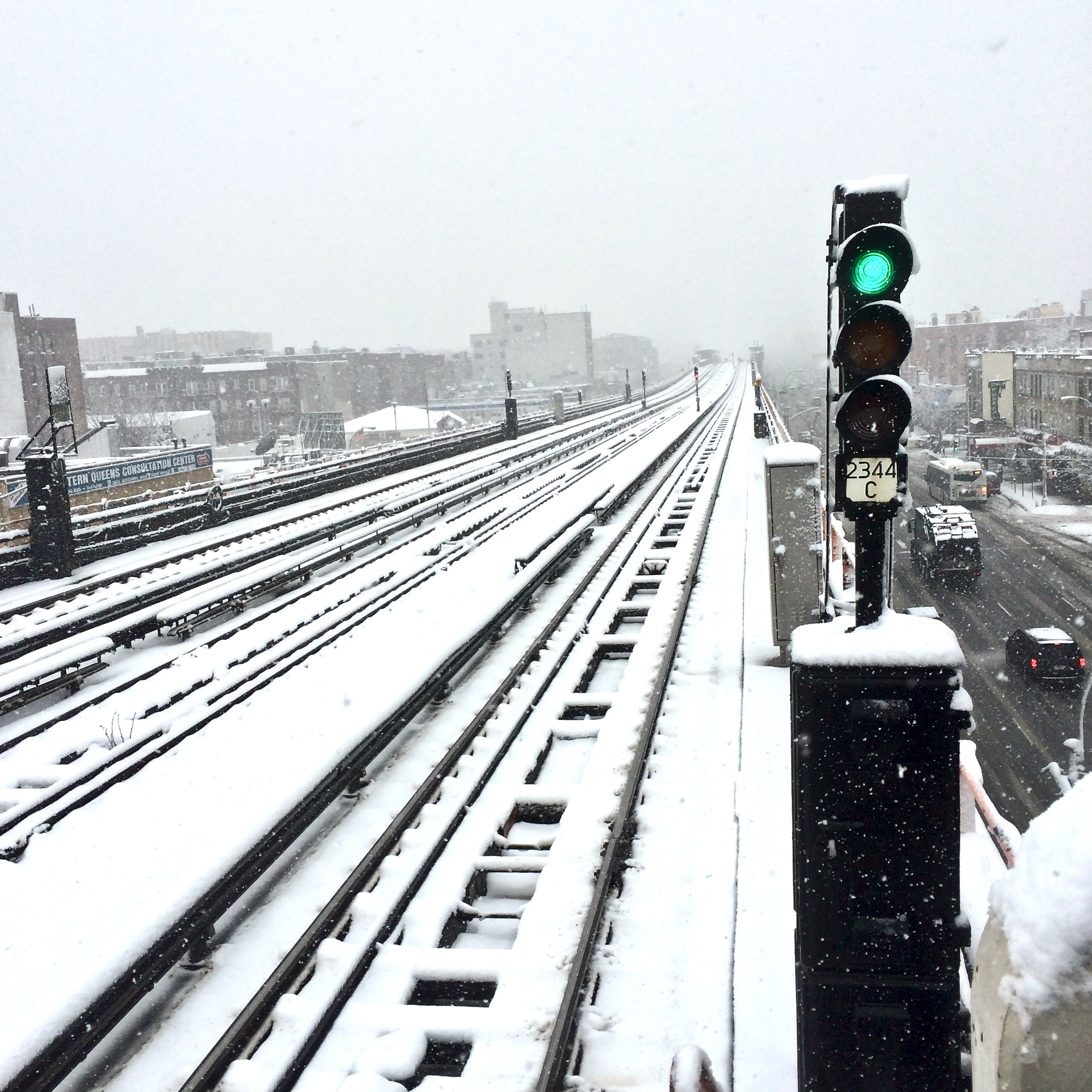 The view in Sunnyside, Queens, looking west from 46th Street–Bliss Street station toward Manhattan, on February 3, 2014. On a clear day, the Manhattan skyline would be visible from this location and angle.